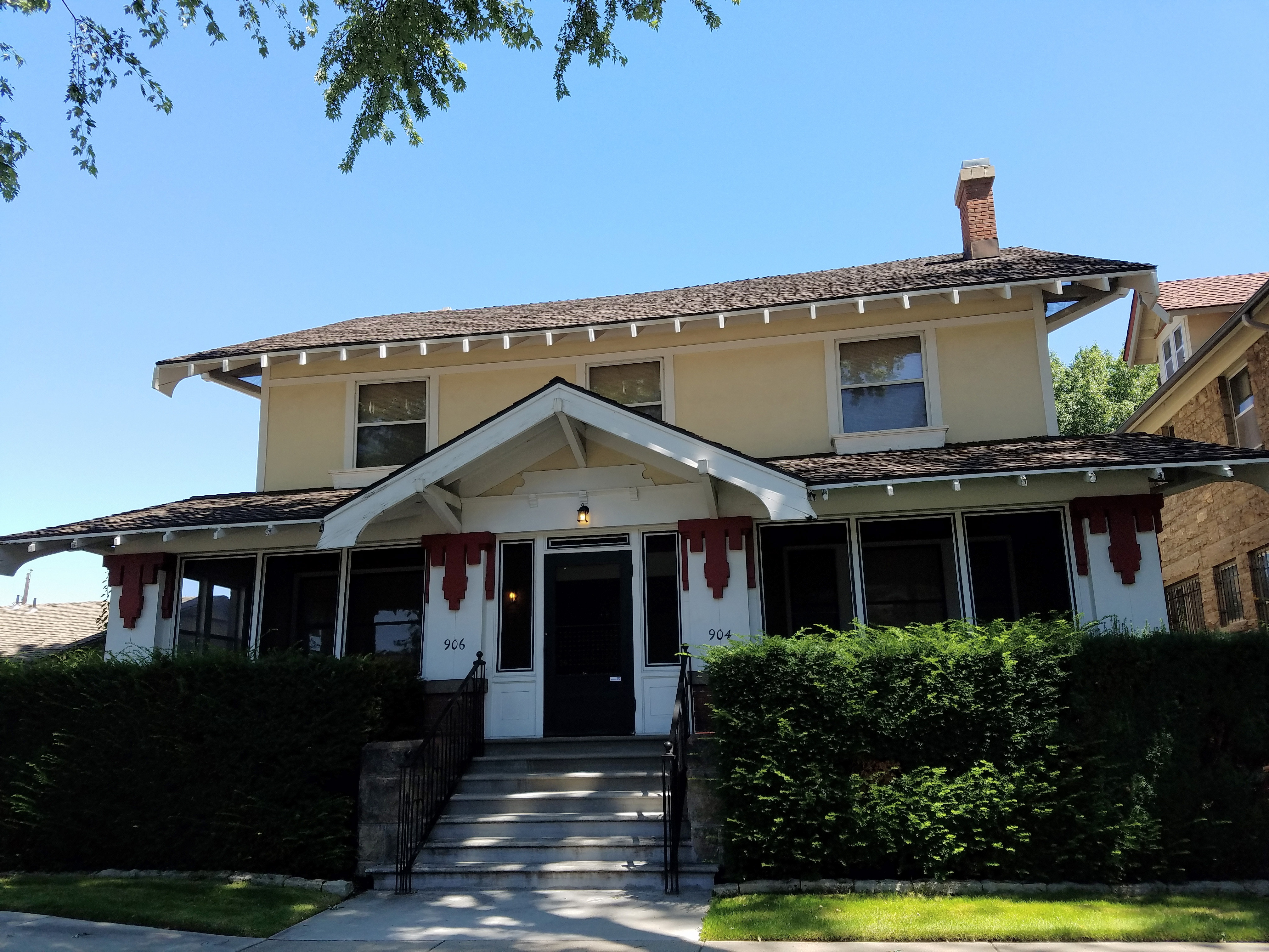 The William Sidenfaden house (1912) in Boise, Idaho, was designed by Tourtellotte and Hummell and is listed on the National Register of Historic Places. The house is also part of the Fort Street Historic District.